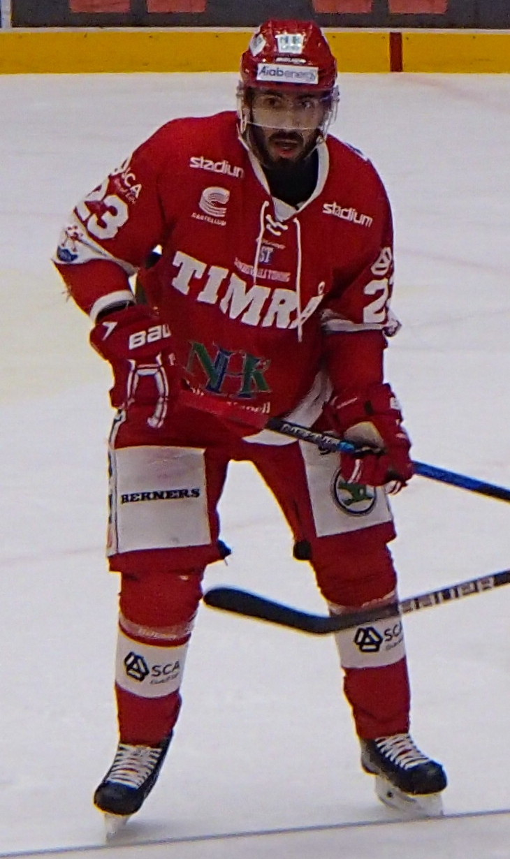 Ice hockey player Jeremy Boyce of Timrå IK in NHK Arena, Timrå, Sweden